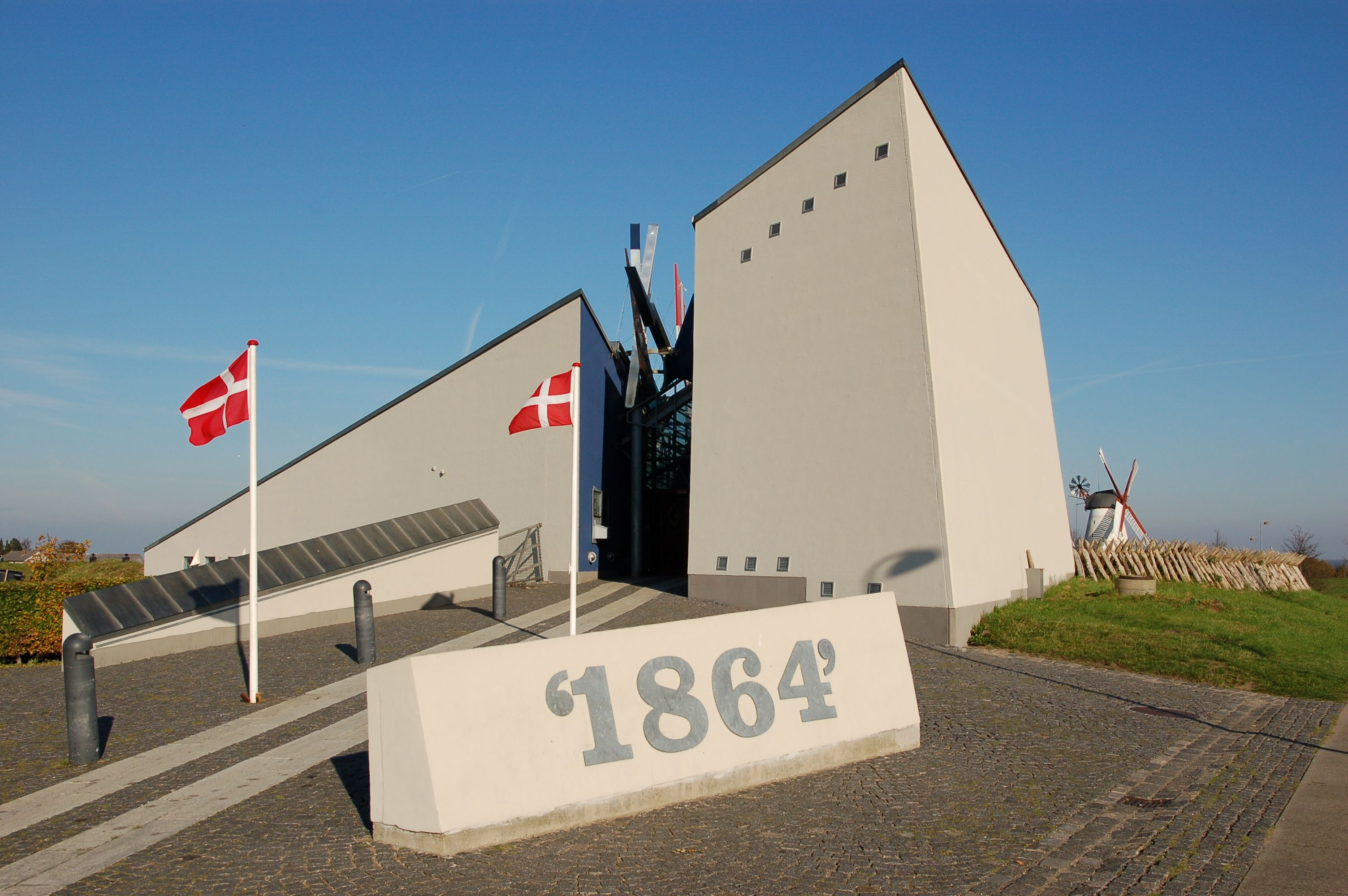 Dybbøl National memorial of Denmark